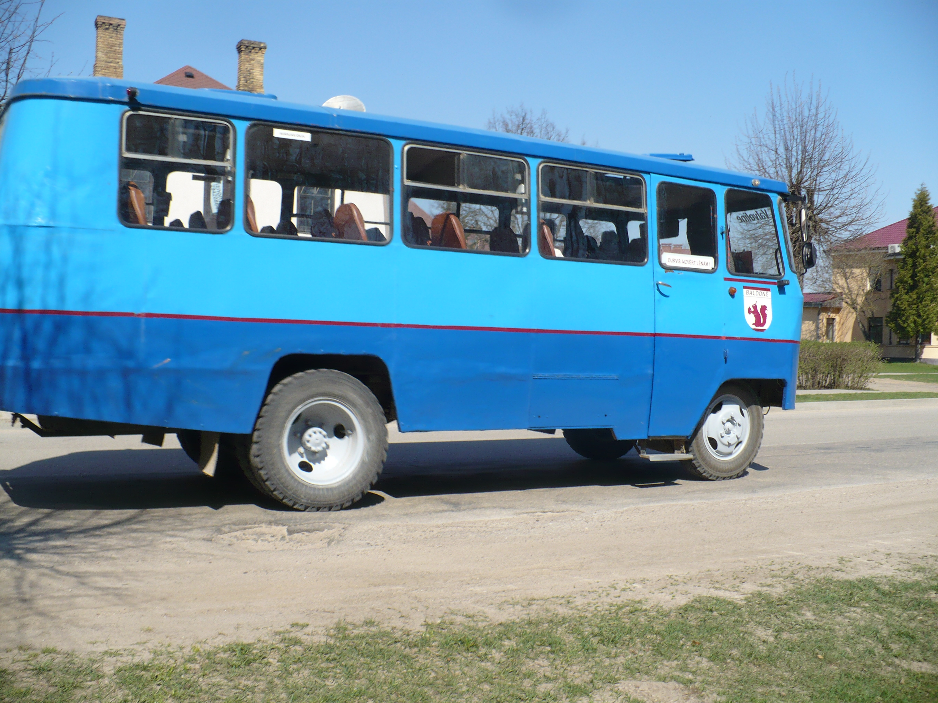 Old Soviet-era bus "Kubanj" (Кубань) still in use in Baldone city. April, 2009.